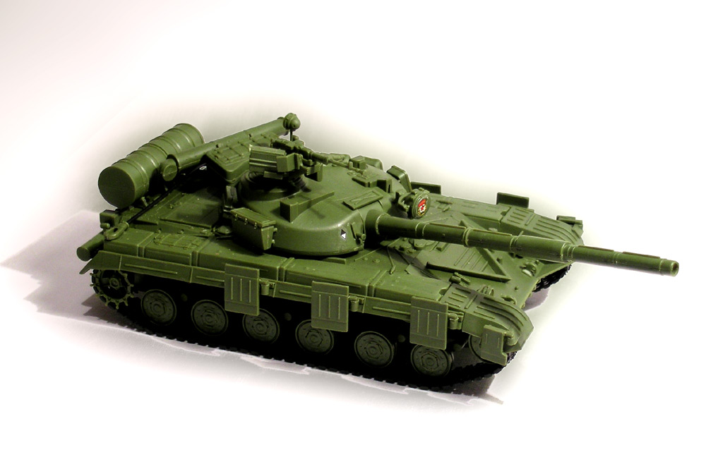 T-64A model.